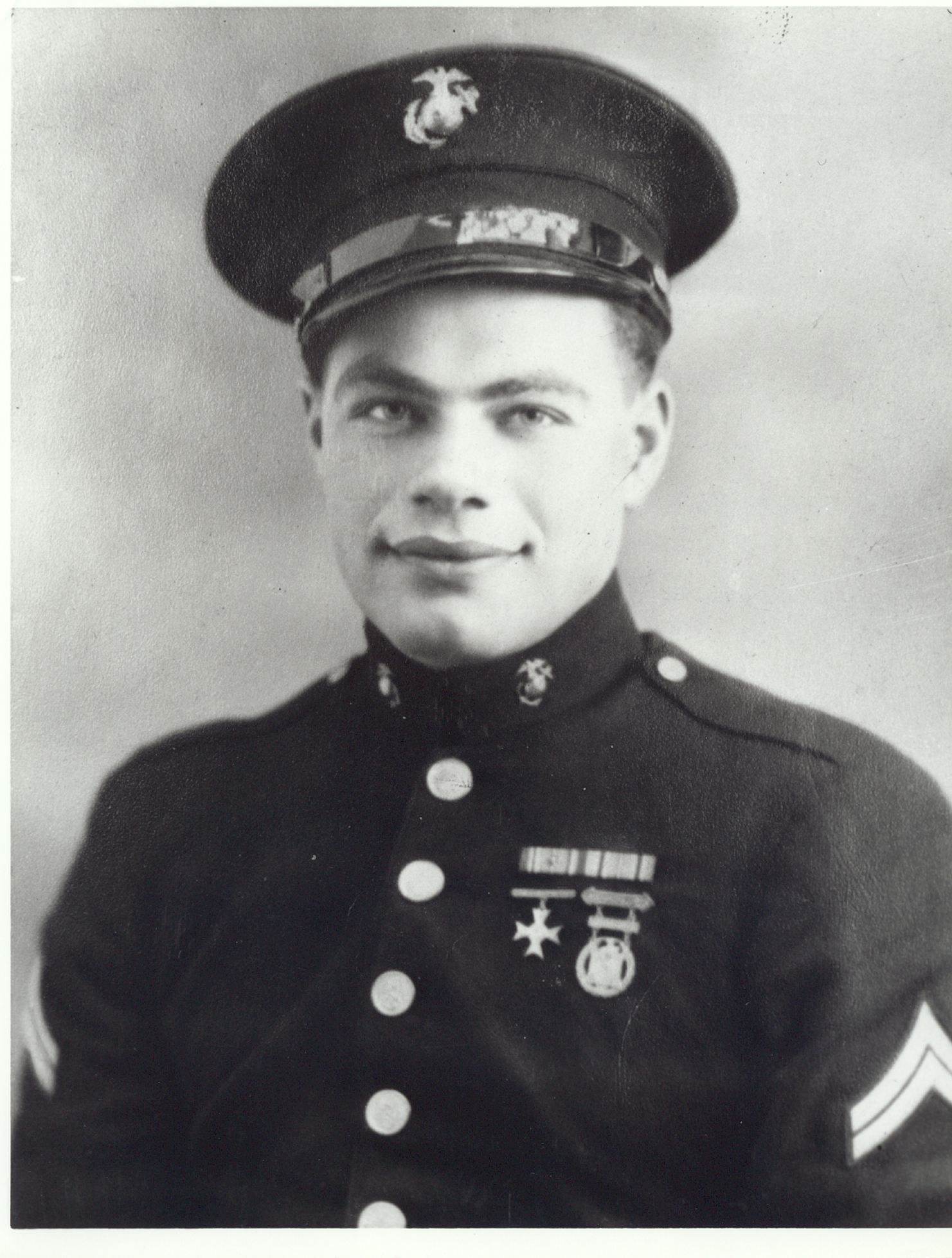 Corporal Anthony Peter Demato, USMC; posthumous Medal of Honor recipient; Killed in action during World War II on Engebi Island, Eniwetok Atoll, Marshall Islands. On the night of 19-20 February 1944, while in a foxhole with two companions, he threw himself upon an enemy grenade, absorbing the explosion in his body. He was instantly killed.